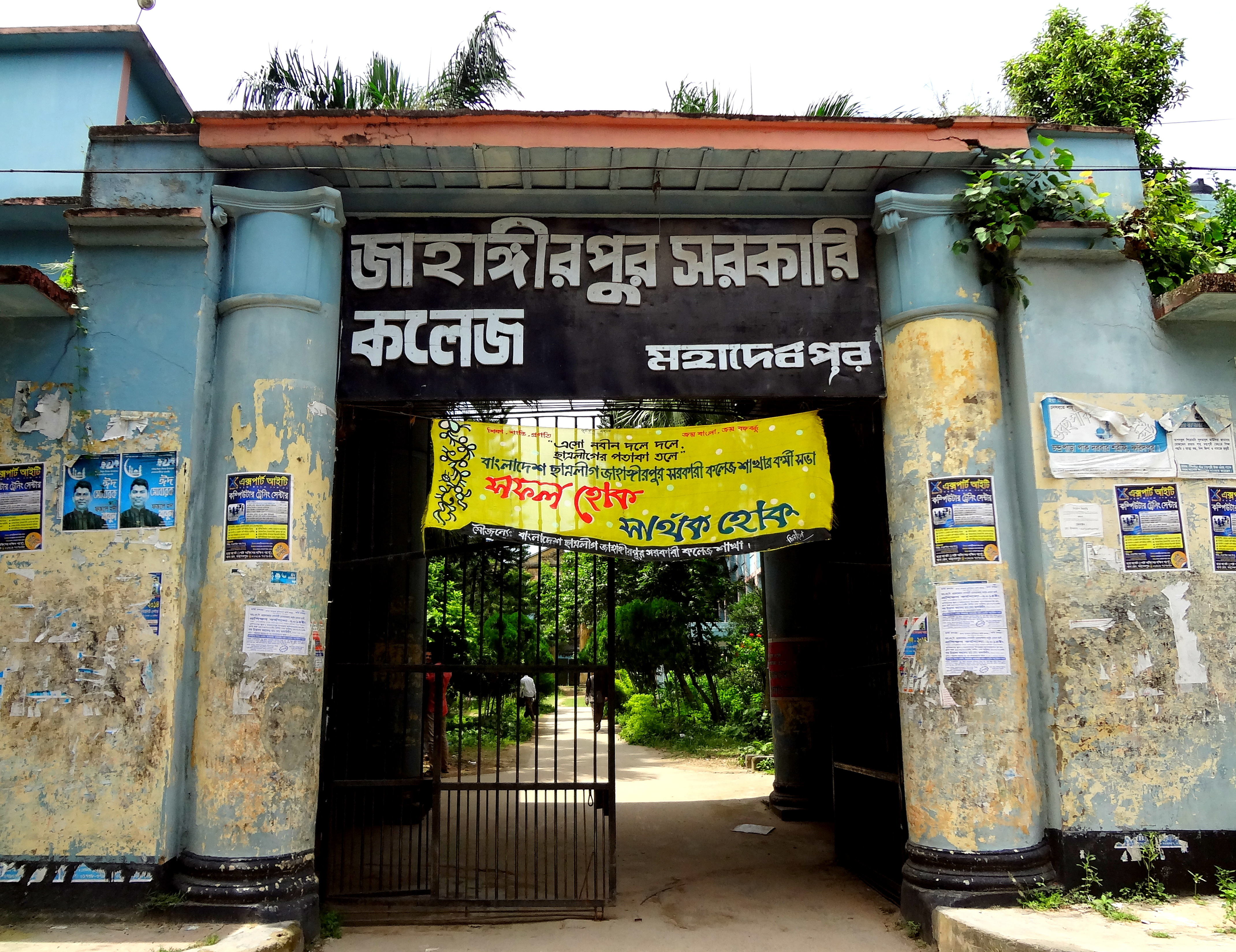 Front Gate, Jahangirpur Govt. College